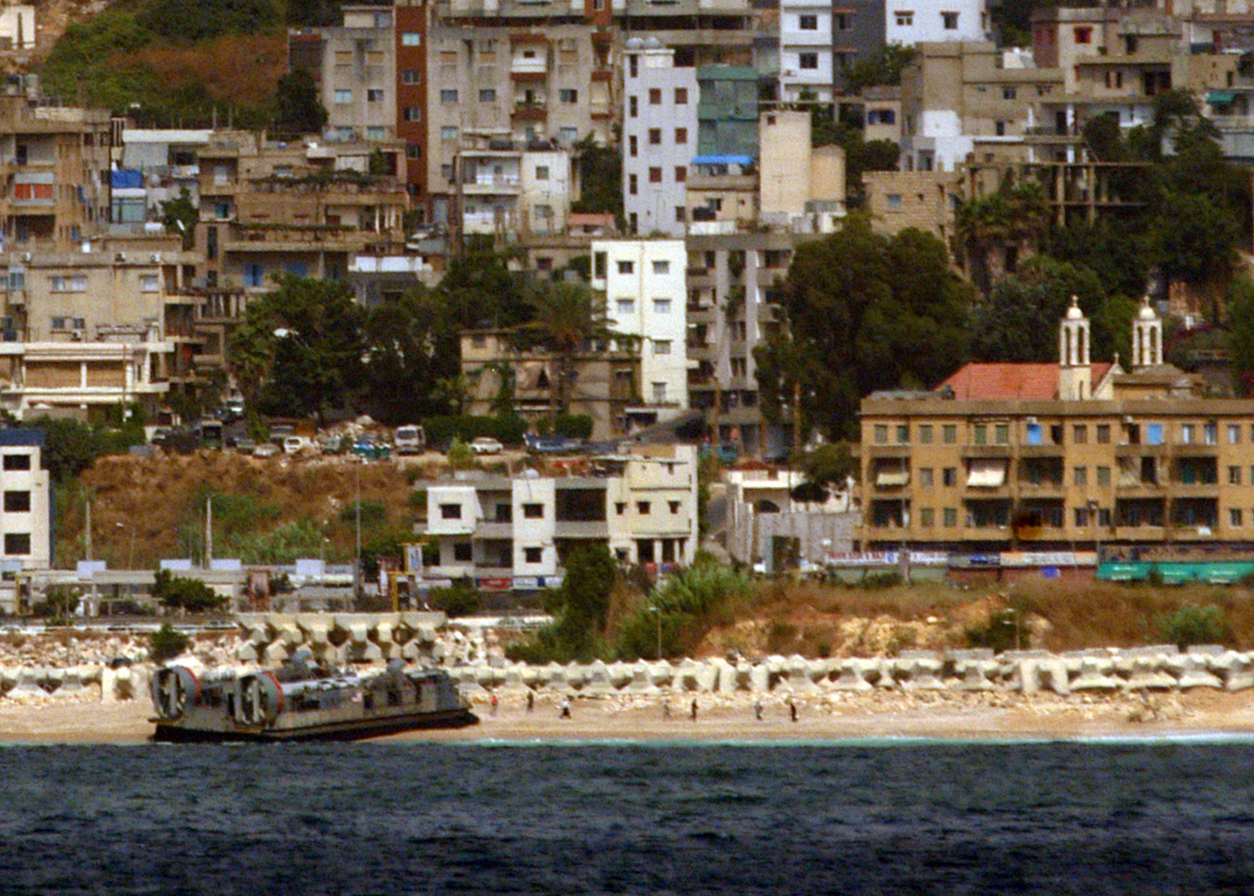 Original caption ABOARD USS IWO JIMA LHD 7(July 22, 2006) ñ U.S. Navy landing craft air cushion (LCAC) on the shore of Lebanon waiting picking up American citizens. The Iwo Jima Expeditionary Strike Group (ESG) is currently assisting in the departure of U.S. citizens from Lebanon. U.S. Navy photo by Mass Communication Specialist 1st Class Robert J. Fluegel (RELEASED)